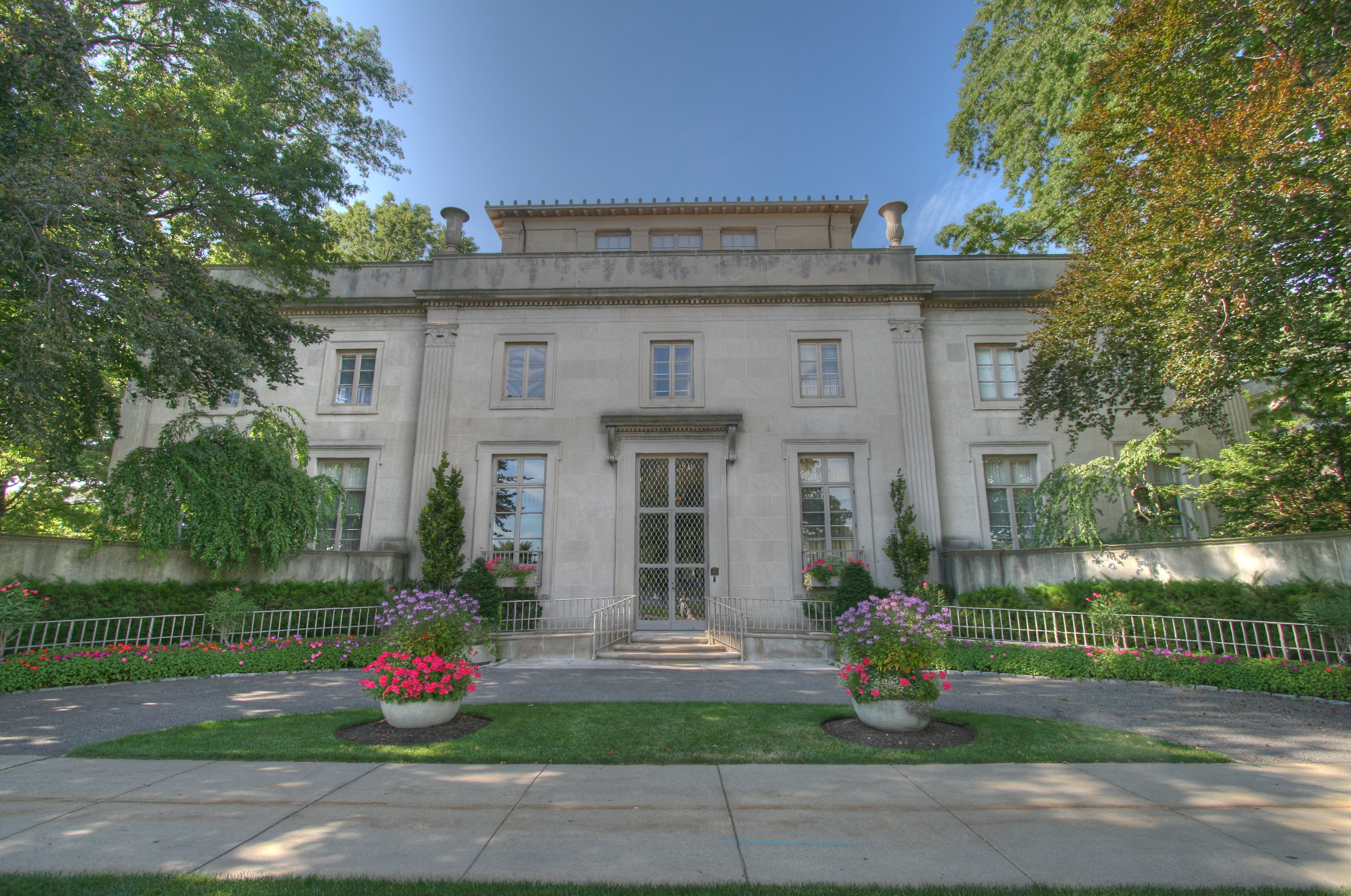 MIT's Gray House from Memorial Drive